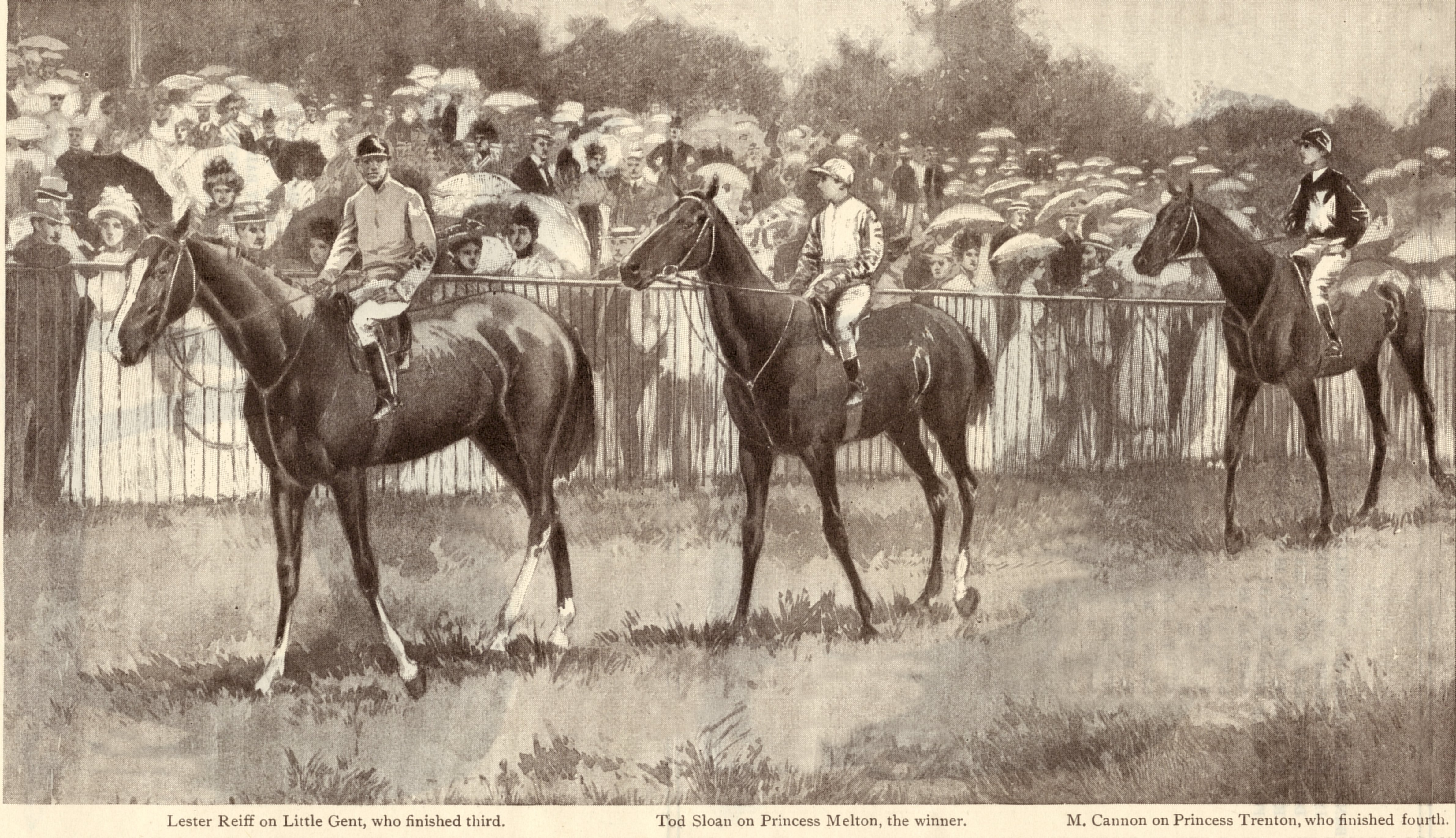 Drawing of American jockeys (from left) Lester Reiff on Little Gent, Tod Sloan on Princess Melton and British jockey Mornington "Morny" Cannon on Princess Trenton at 1900 Produce Stakes at Newmarket Racecourse from Munsey's Magazine, Volume XXIV, October 1900 - March 1901, page 357.